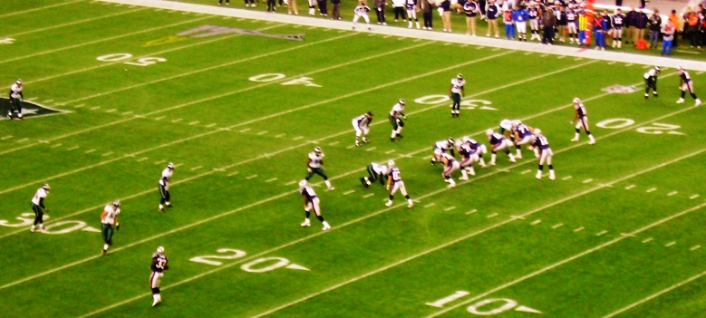 Patriots v. the Eagles at Gillette Stadium. Spread 'em out.